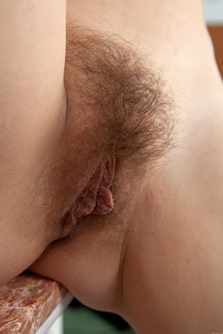 Vagina pubic hair labia